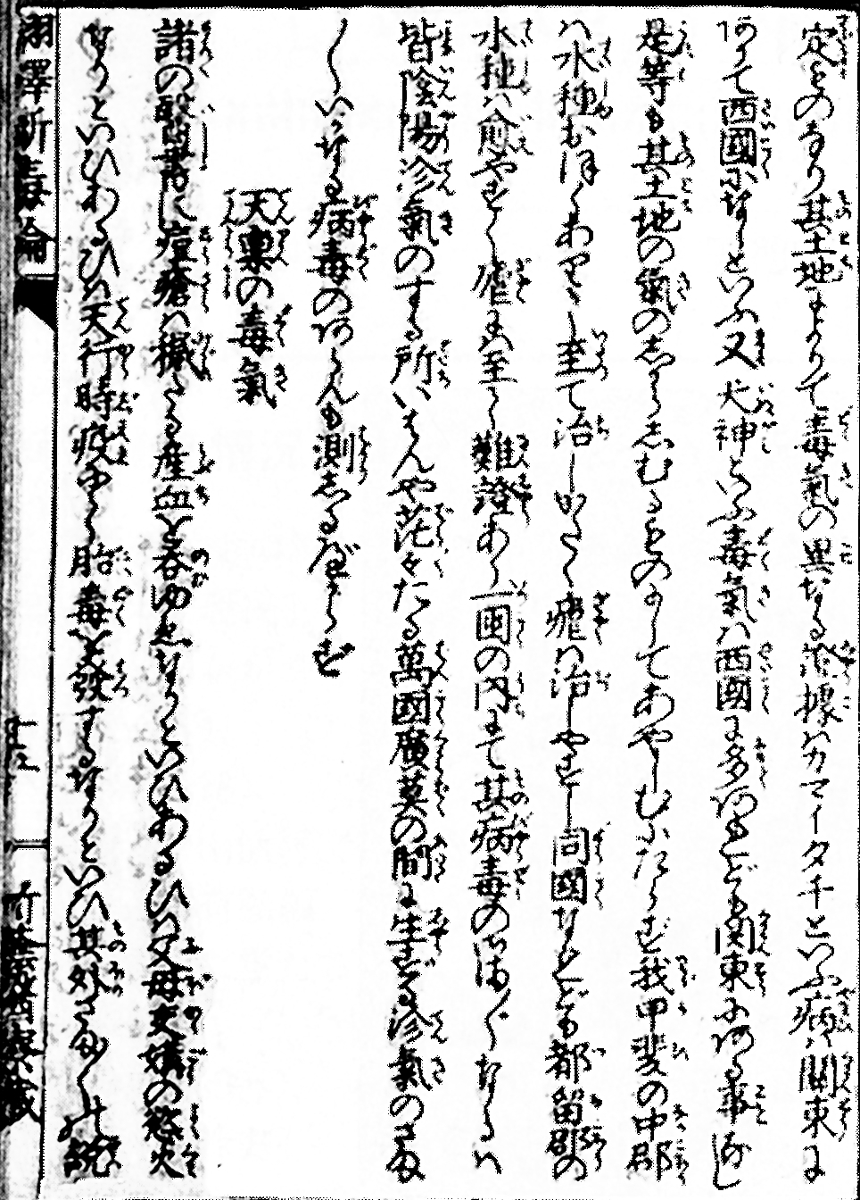 Honyaku-dandokuron, old Japanese medical books of 1811.